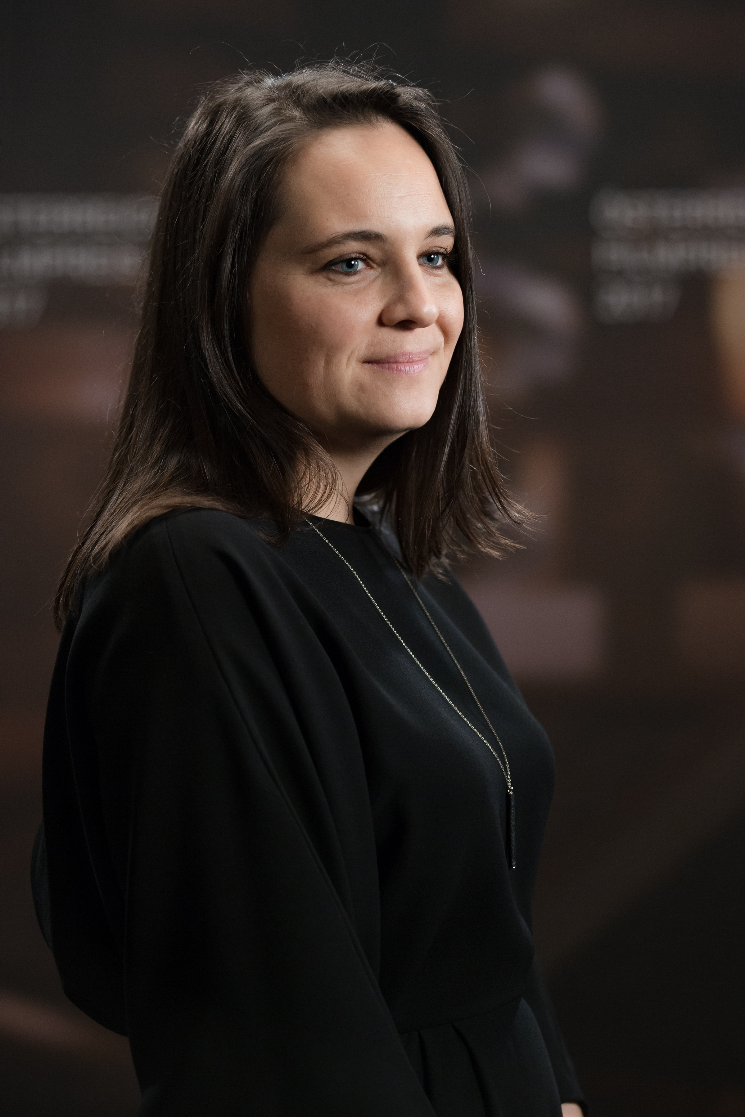 Natalie Schwager, producer of Holz Erde Fleisch, at the Austrian Film Awards 2017 (Rathaus, Vienna,Austria).